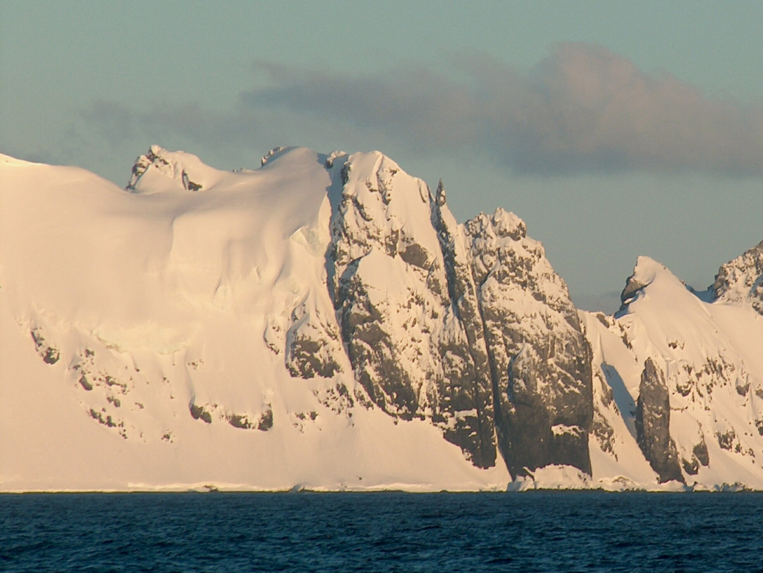 Bansko Peak is located in the Tangra Mountains of Livingston Island. source: Lyubomir Ivanov